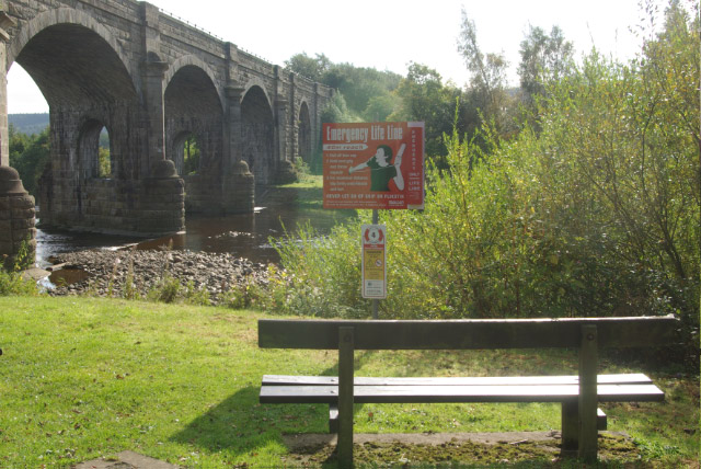 Alston Arches Viaduct The viaduct carried the Haltwhistle - Alston railway over the River South Tyne until 1976; nowadays it only supports a footpath. Note the emergency lifeline installation - presumably considered more effective than the traditional ring.